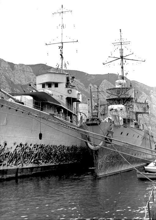 Yugoslavian destroyers Dubrovnik (left, then Italian Premuda), and Beograd (then Italian Sebenico)